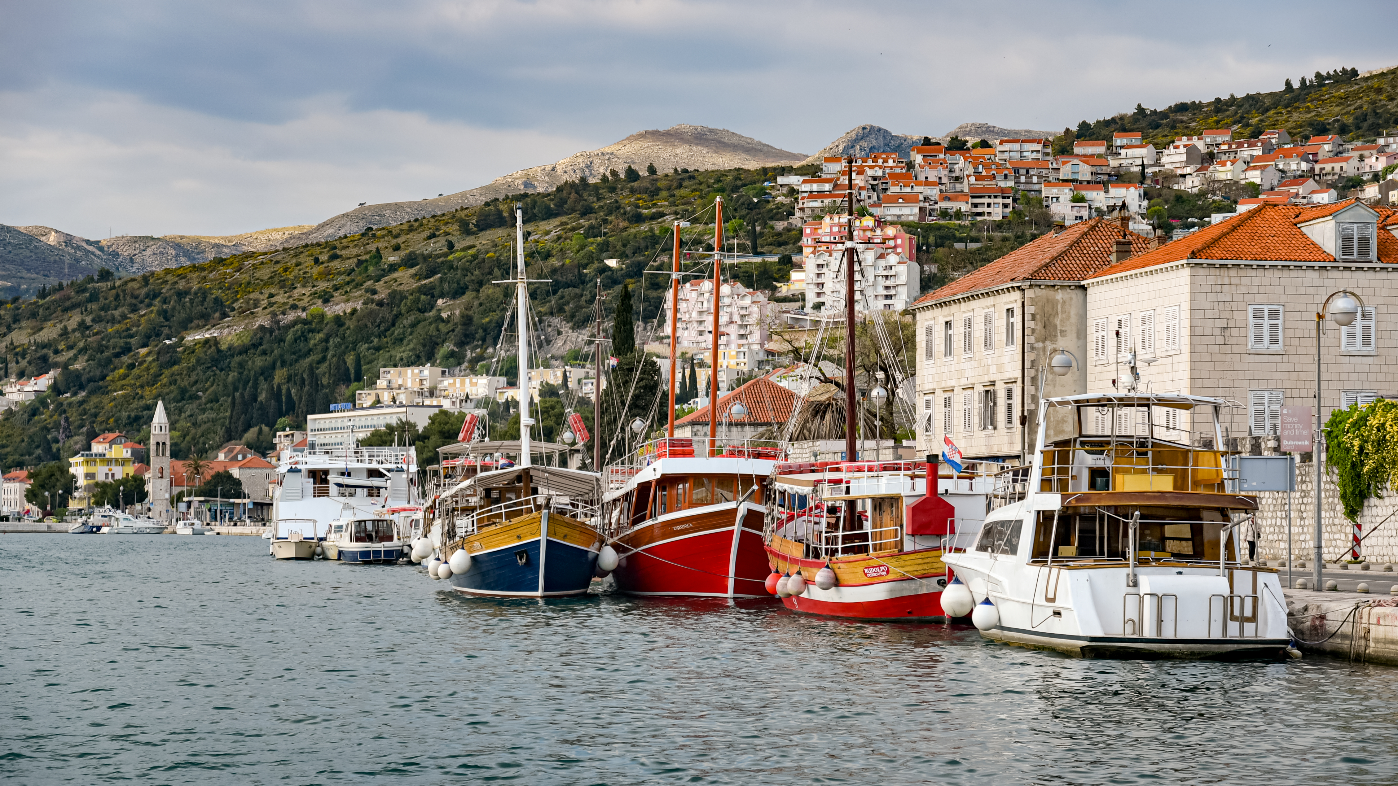 Dubrovnik (Croatia)